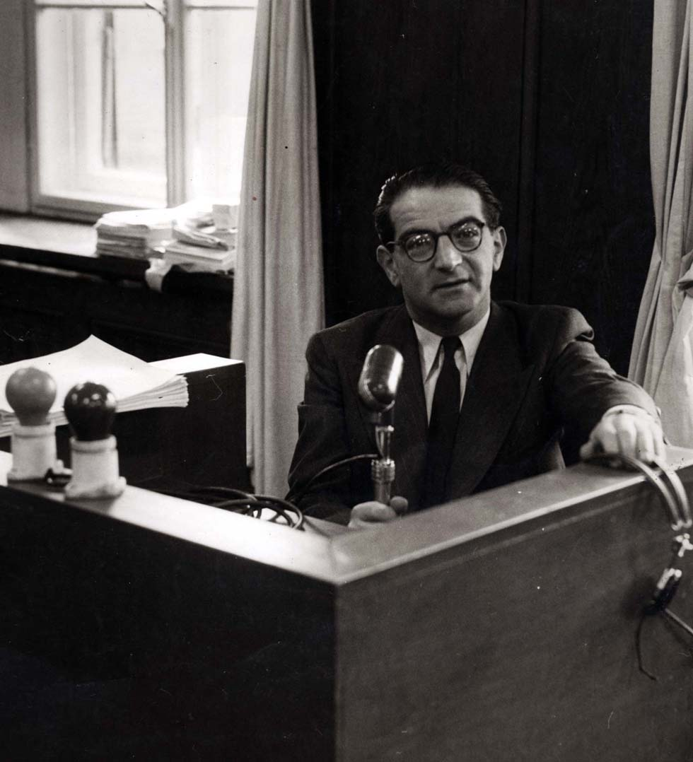 Rudolf Kastner (1906–1957) in broadcasting booth at Kol Yisrael, official Israeli state radio station, where he hosted a program in Hungarian.